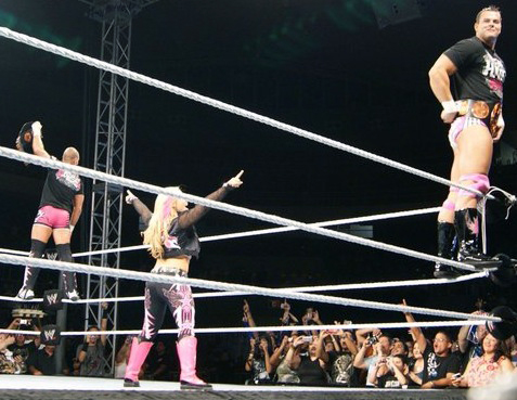 The Hart Dynasty posing for the crowd